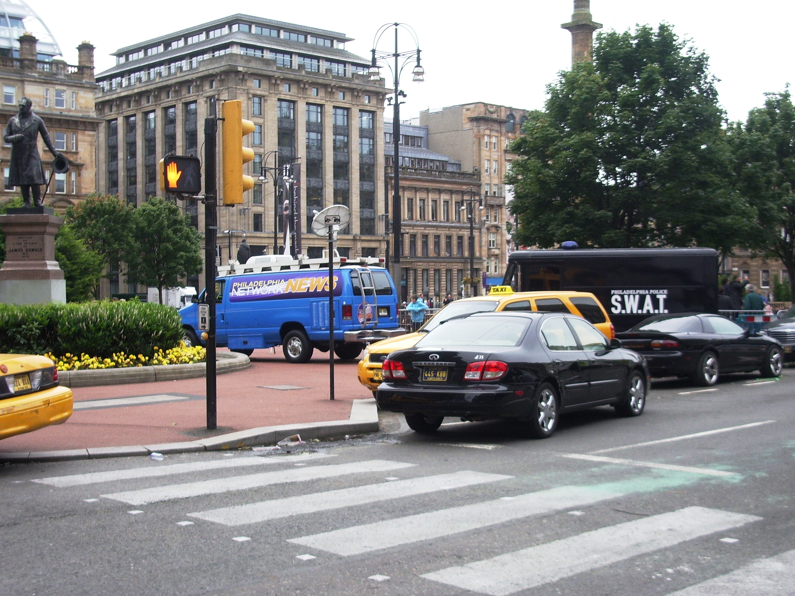 World War Z film set in Glasgow. Taken from George Square, looking south-west. Shows OB and SWAT vehicles.